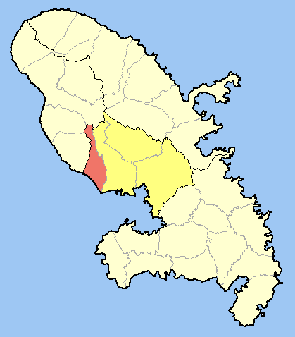 Location of Schoelcher within Martinique